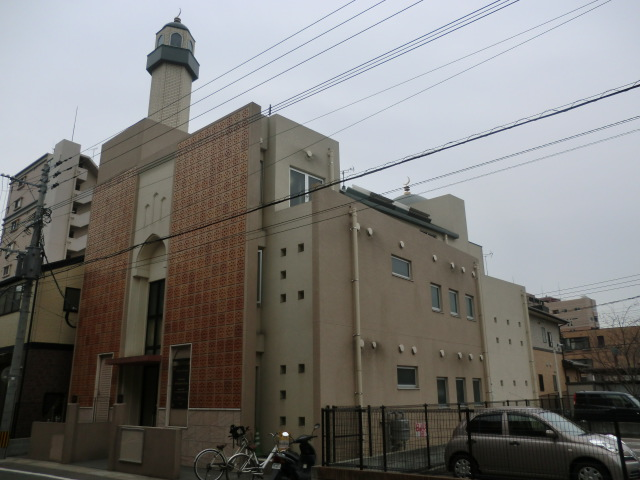 Fukuoka masjid in front of Hakozaki station in Fukuoka city.